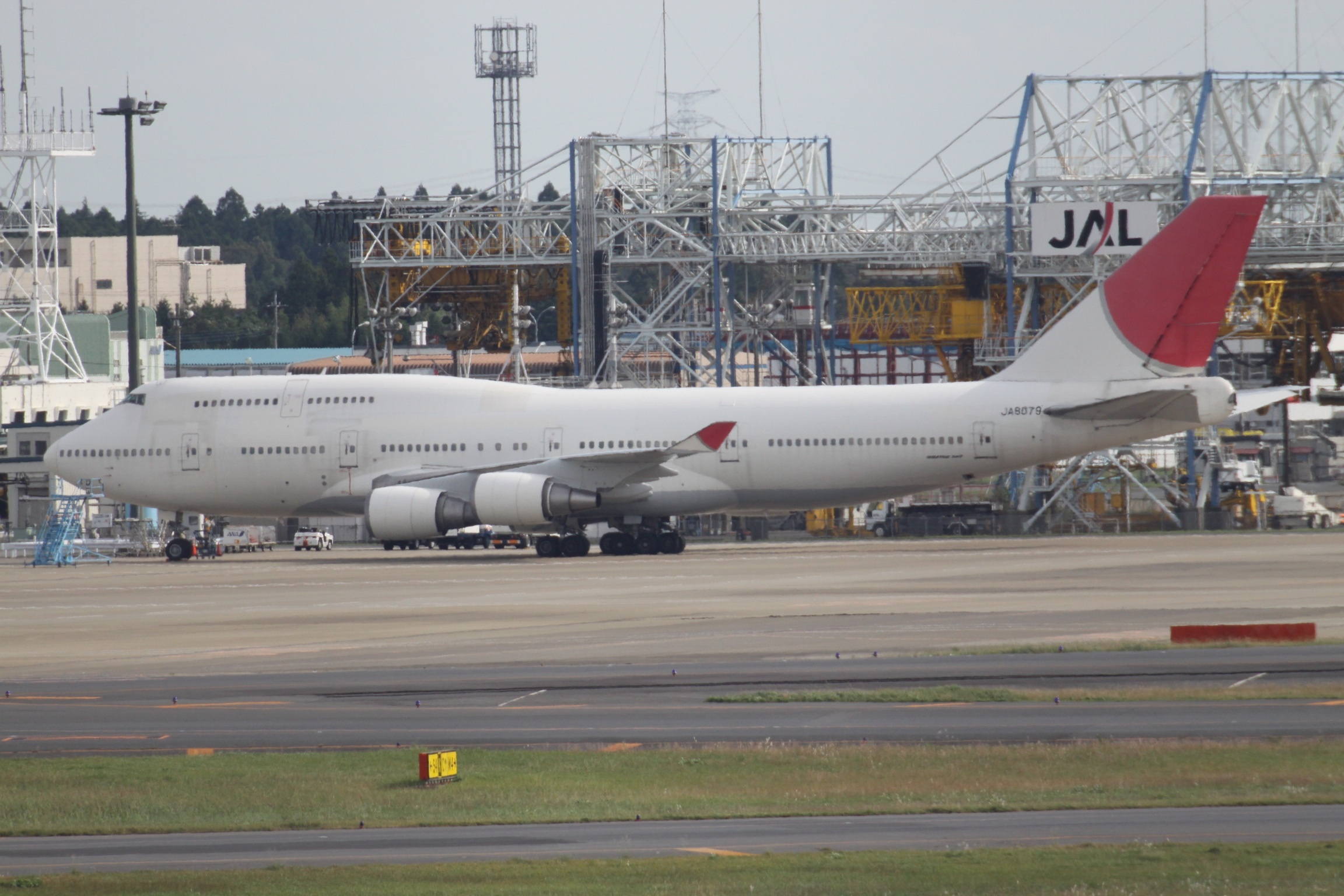 At Tokyo Narita International